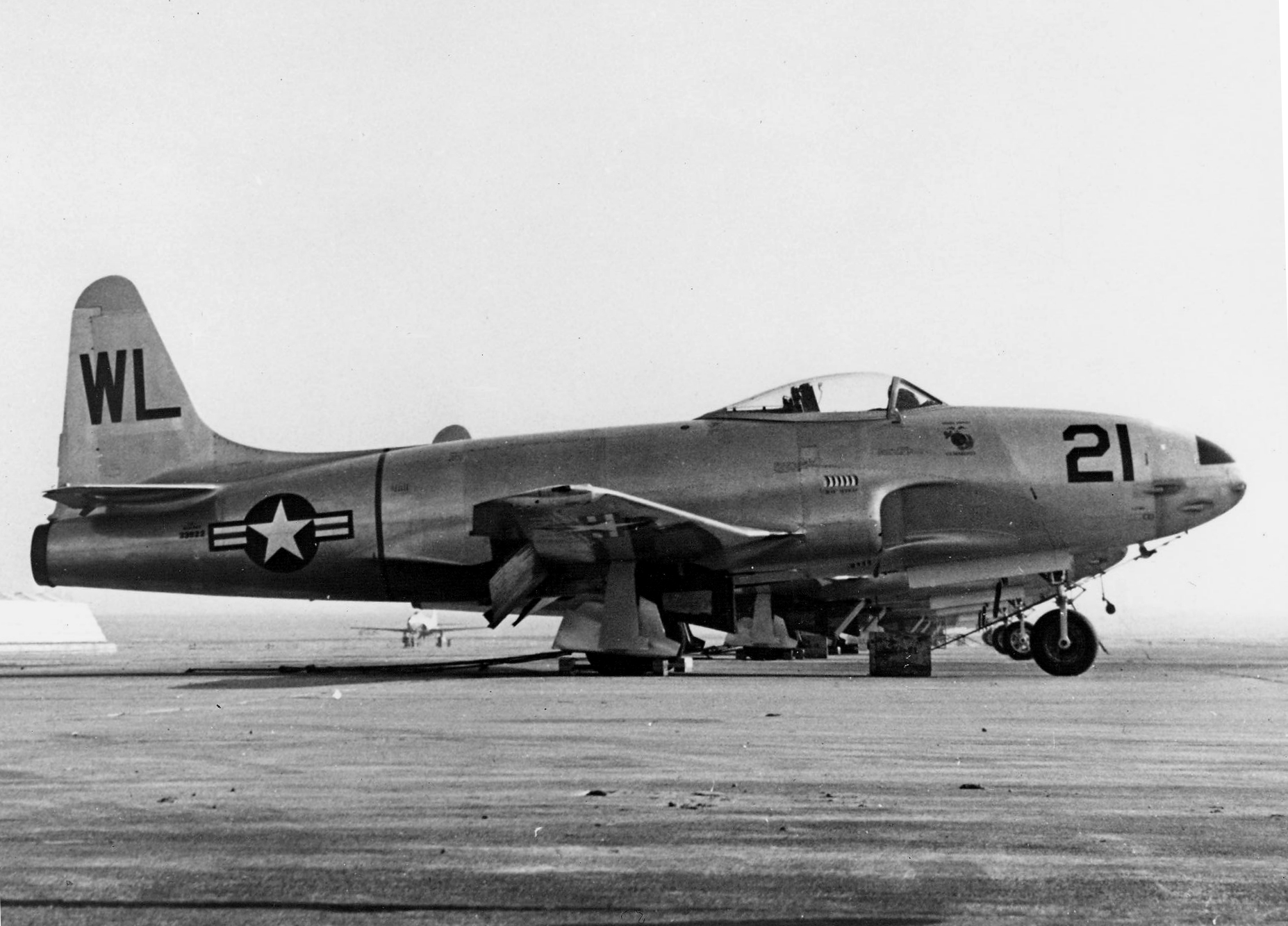 A U.S. Marine Corps Lockheed TO-1 Shooting Star (BuNo 33822) from Marine Fighter Squadron VMF-311, circa in 1948. The TO-1s were F-80Cs transferred from U.S. Air Force. VMF-311 converted to the Grumman F9F-2 Panther already in 1949.